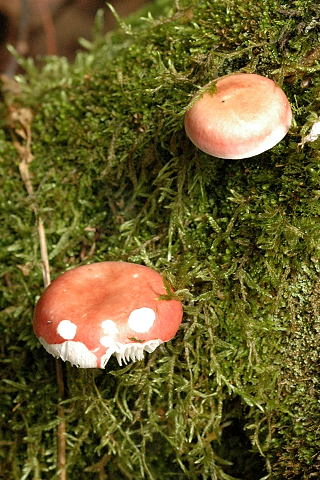 Russula spec. from Commanster, Belgium. The determination of the species shown in this picture has been verified.